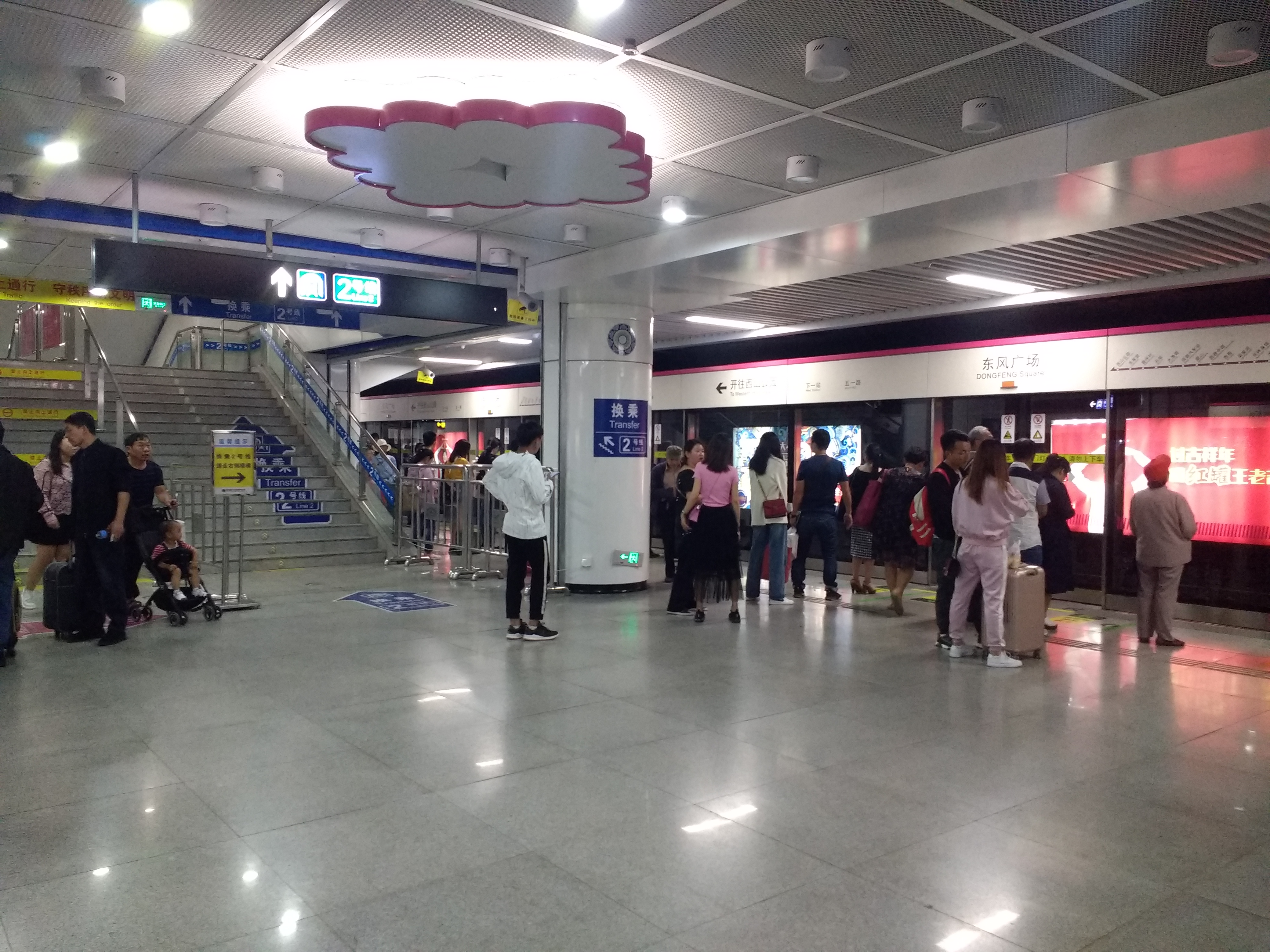 Dongfeng Square Station on line 3 of the Kunming Metro.